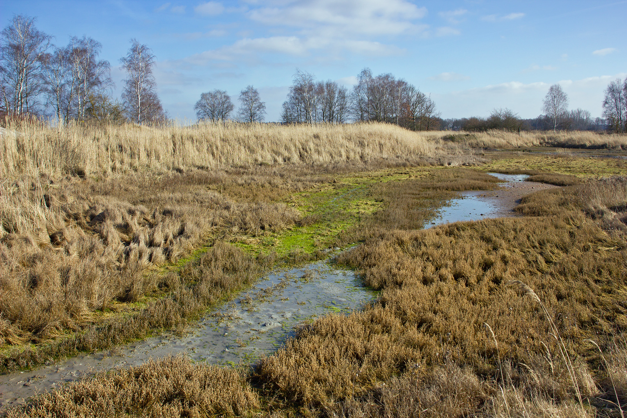 Salty habitat near Schreyahn (district Lüchow-Dannenberg, northern Germany). Inland far away from the coast; with typical vegetation, adapted to salty conditions (e.g. Salicornia europaea).